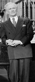 Agustin Orrequia-actor